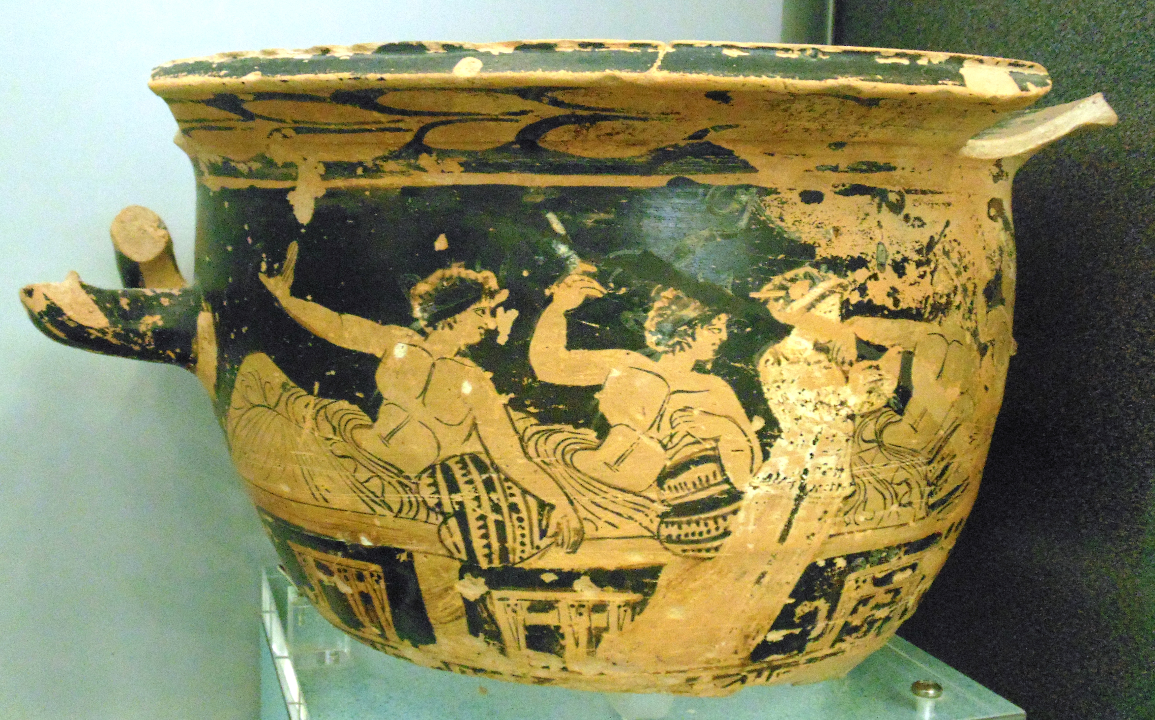 Collection of Archaeological Museum of Eretria